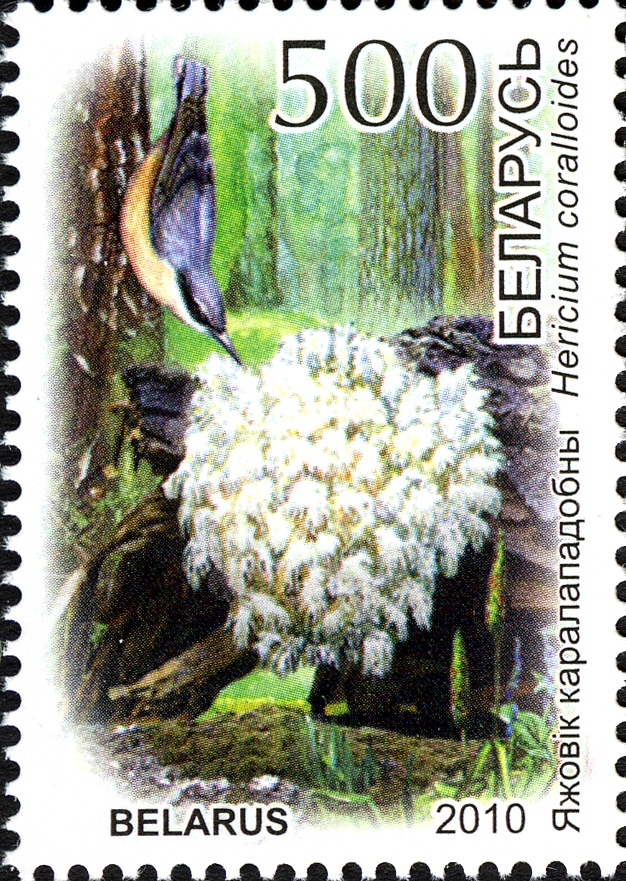 Stamp of Belarus